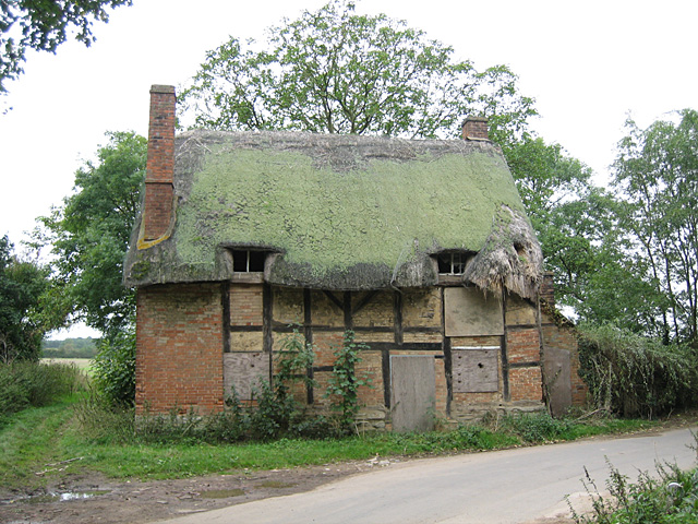 Cutlin Mill Cottage: a 17th-century building by the bridge over the River Stour, Atherstone on Stour, Warwickshire. The cottage was abandoned by 2004 and destroyed by fire in 2010.